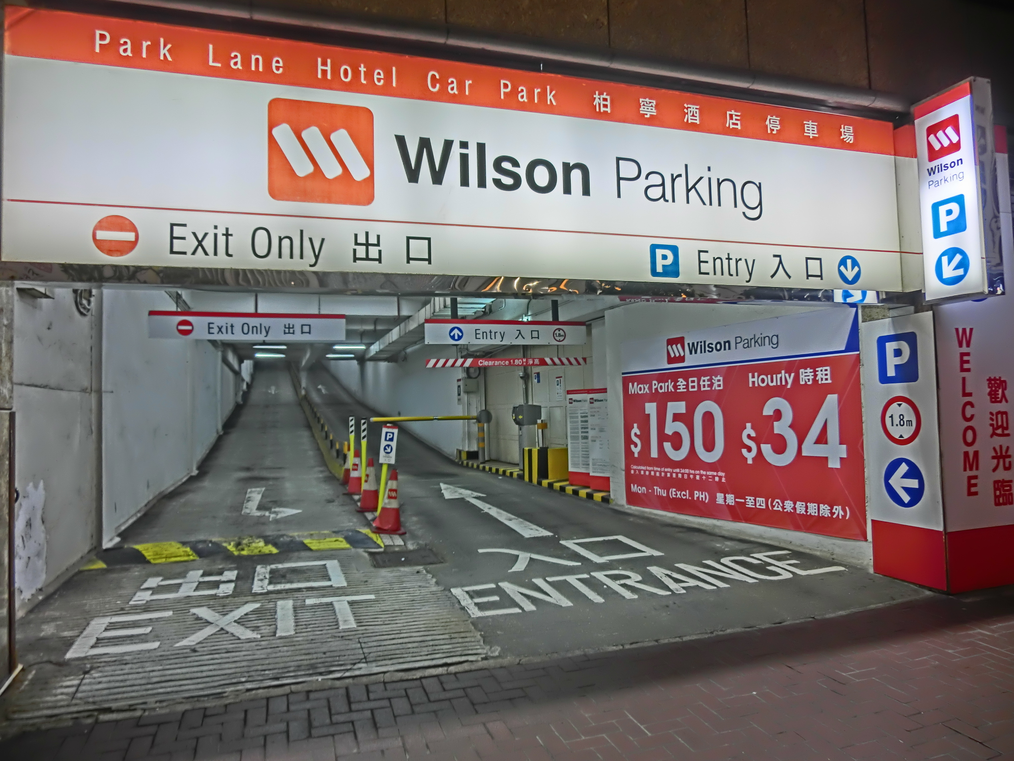 記利佐治街, Great George Street, Causeway Bay, Hong Kong